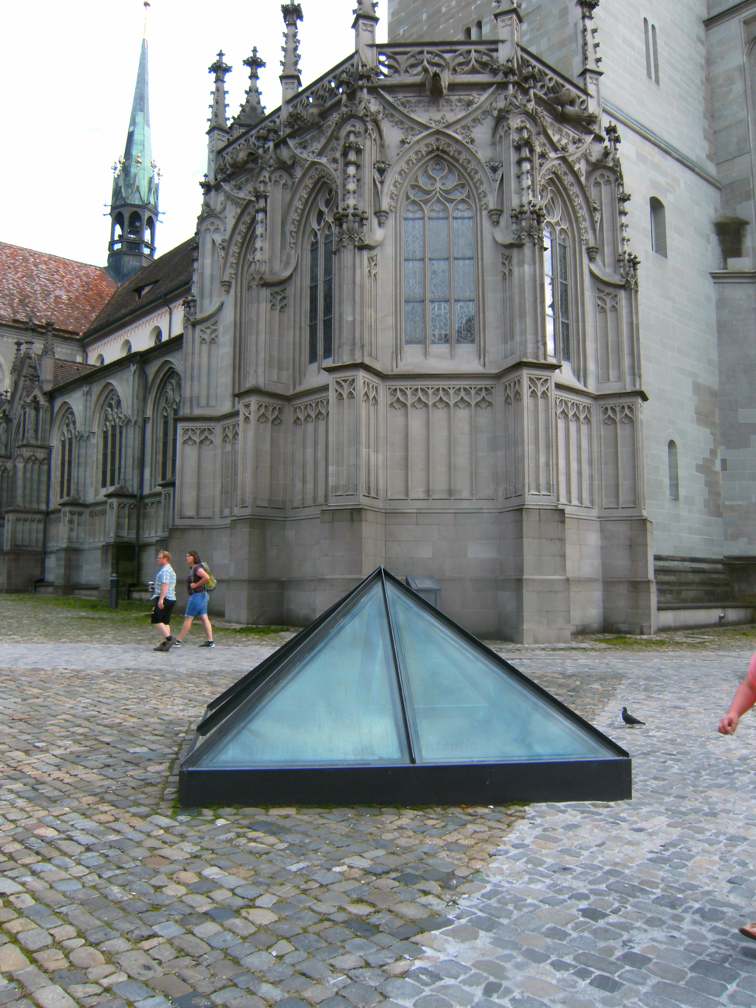 Glass pyramid on the Münsterplatz (Konstanz), Lake Constance: Protecting ruins.